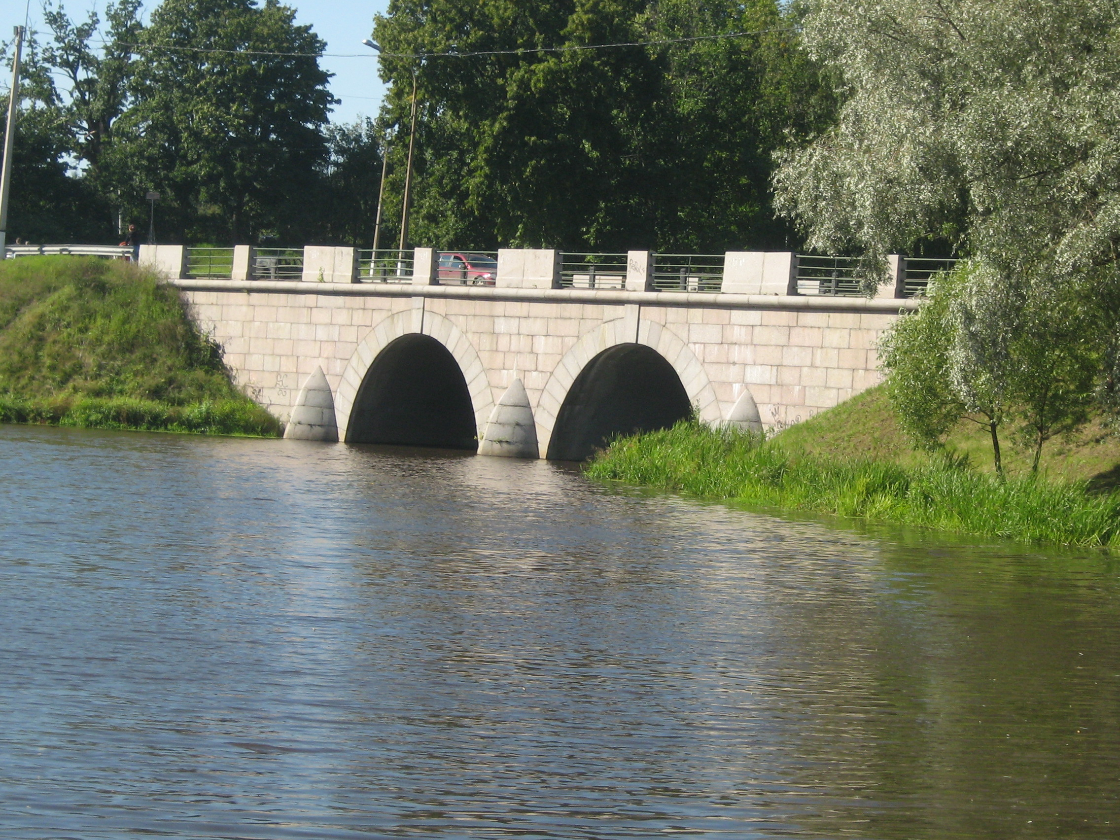 Pavlovsk (Russia)